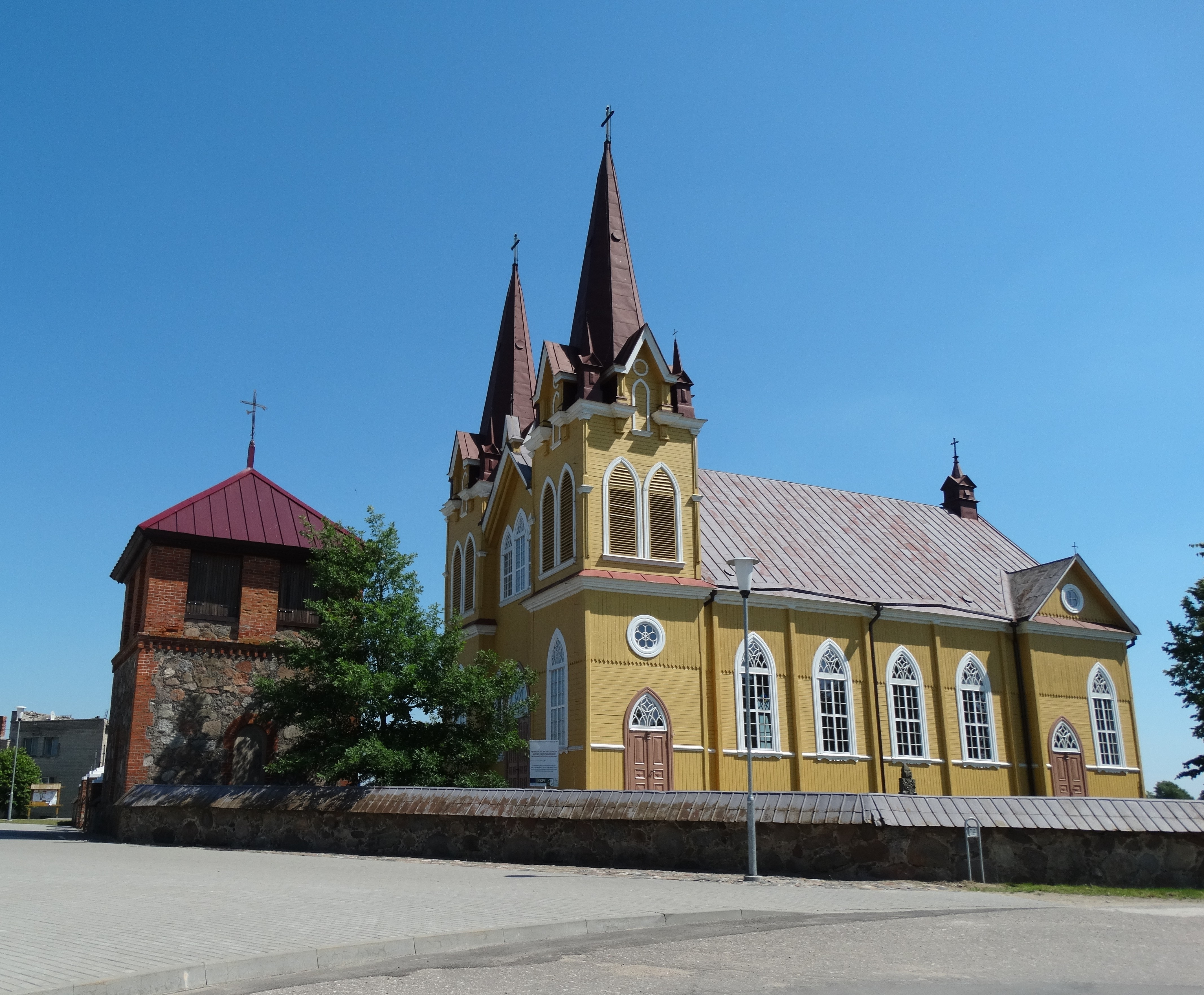 Holy Trinity Church, Medingėnai, Rietavas Municipality, Lithuania